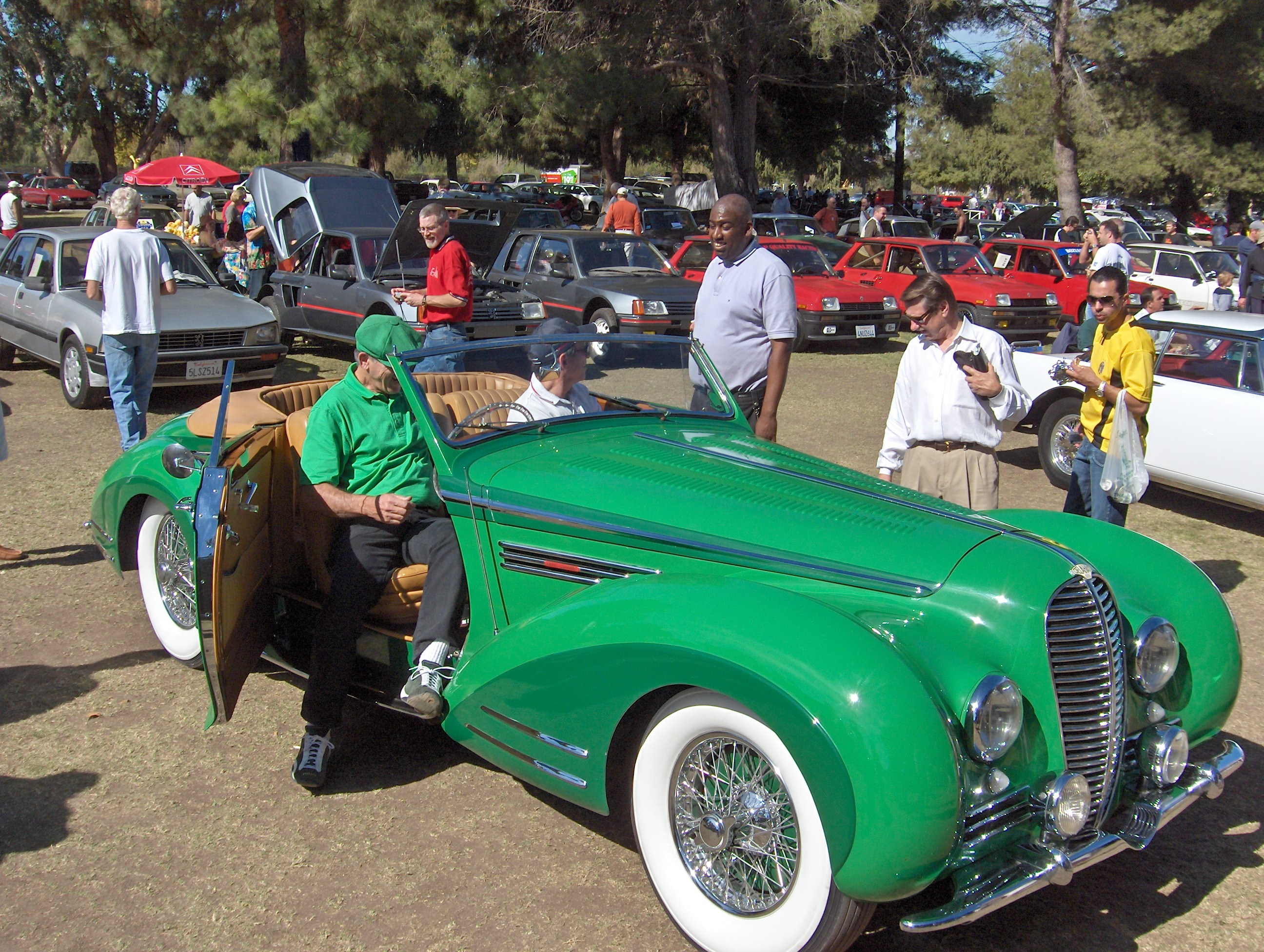 1948 Delahaye Type 135MS Cabriolet by Chapron.